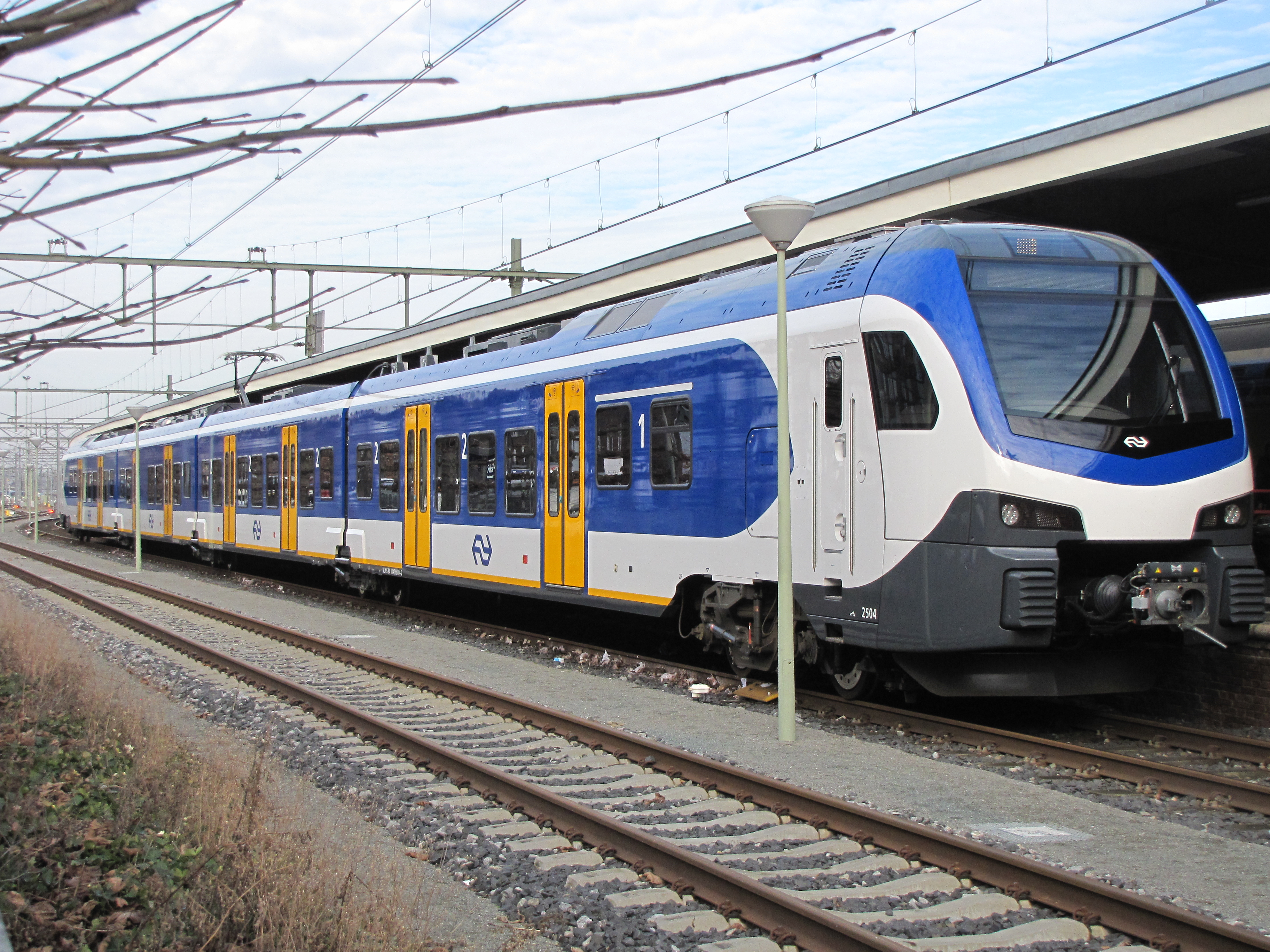 New NS FLIRT train at the Maastricht Station